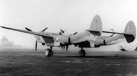 P-38E with upswept tail, second version of proposed floatplane variant (see: Bodie 2001, p. 32.)